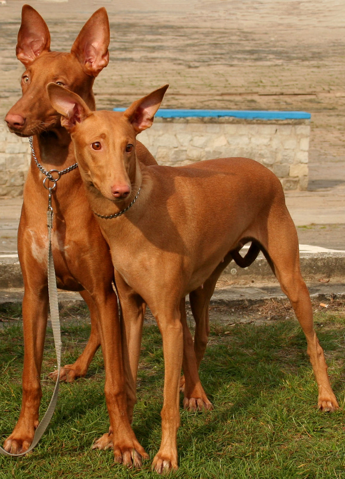 Pharaoh hound male (on the left) and female